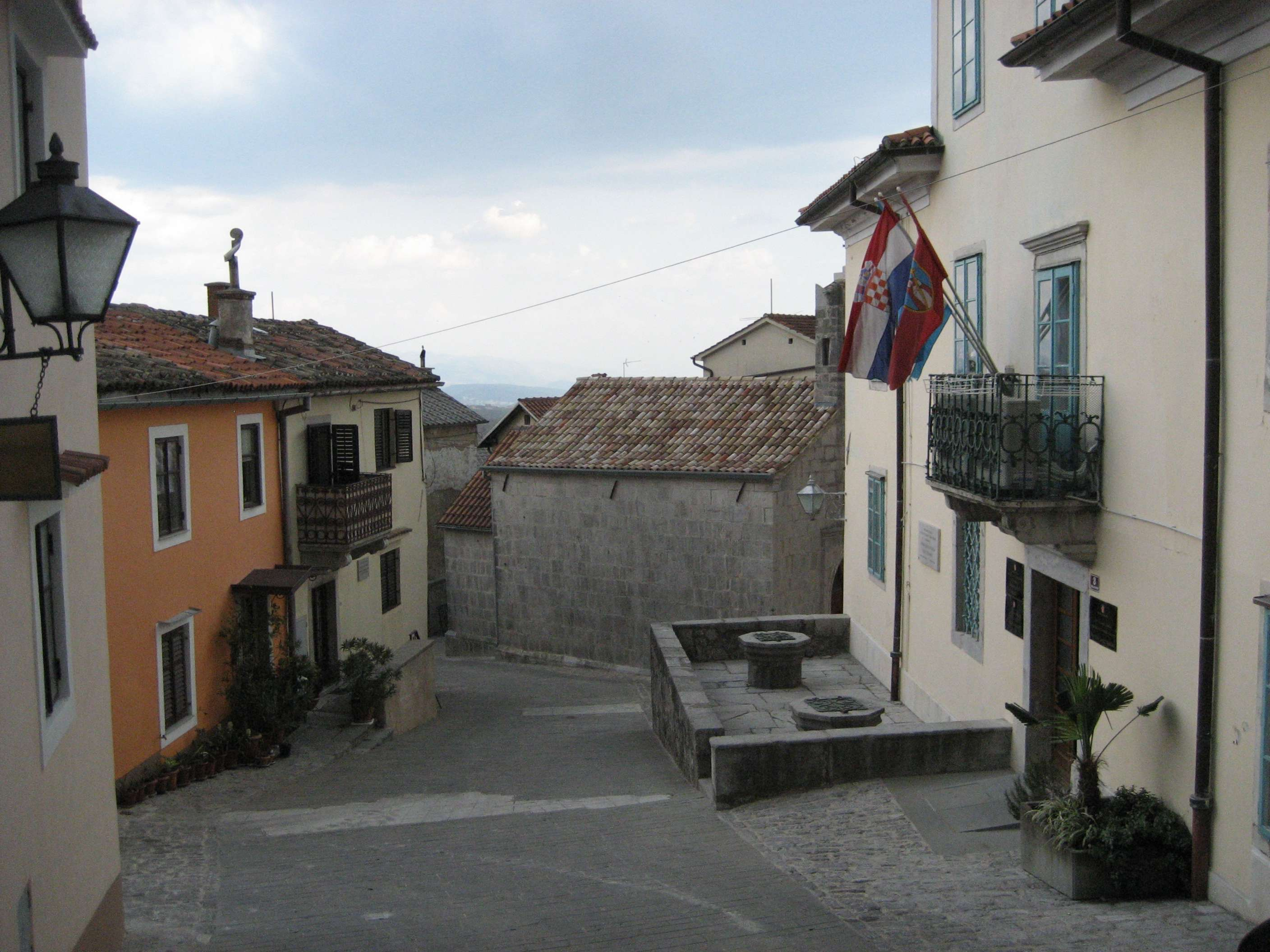 Kastav, Croatia